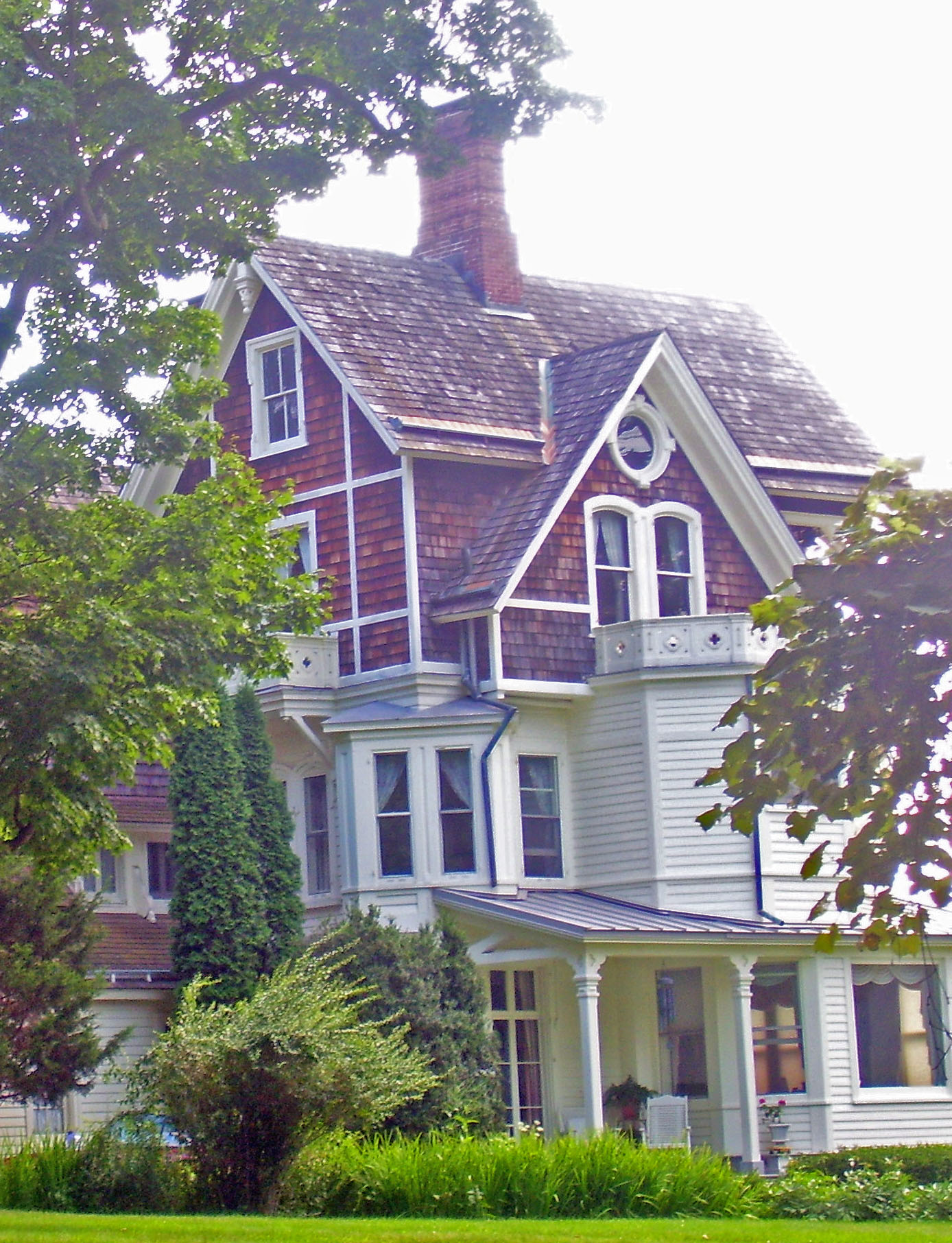 Montrest, former summer home of 19th-century New York City art dealer Aaron Healy, in the hills above Nelsonville, NY, USA